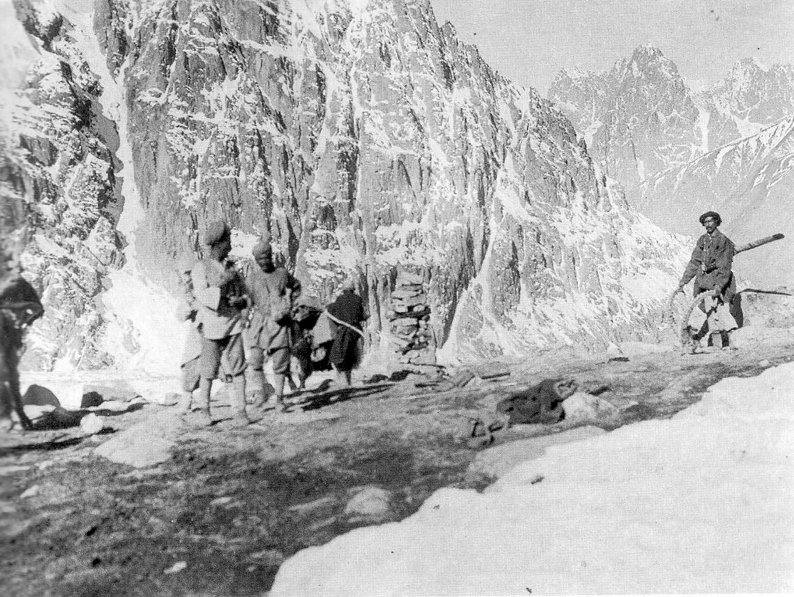 This photo was taken by F. M. Bailey, 1918. No copyright.